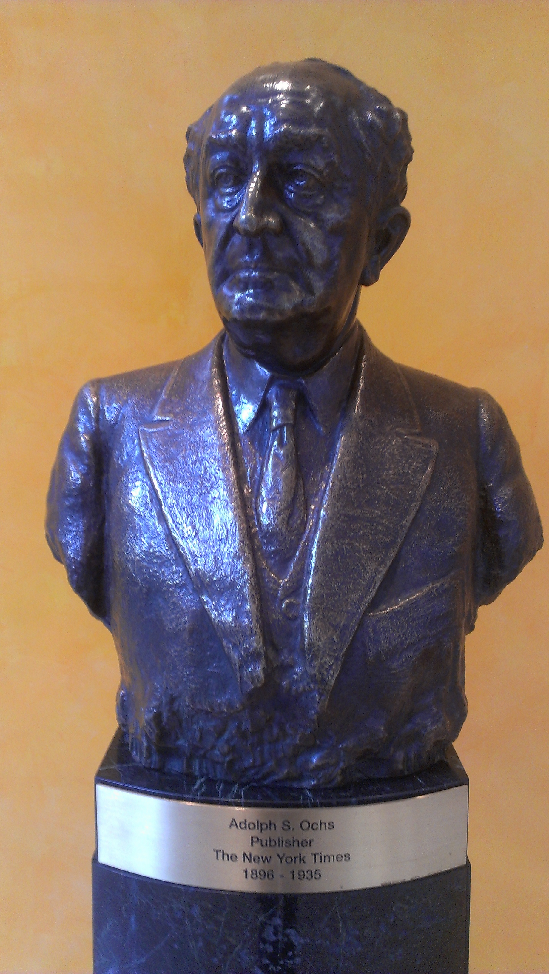 This bust was done by Vincenzo Miserendino in 1933